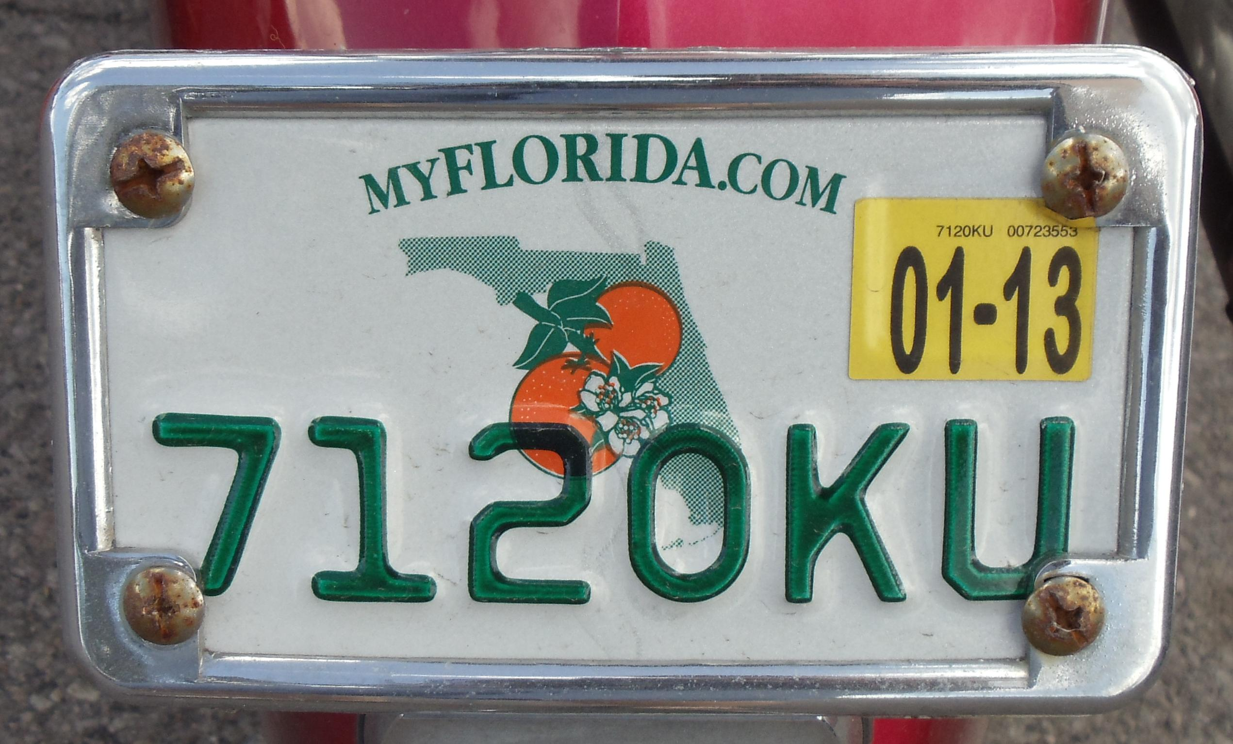 A Florida license plate for a motorcycle.